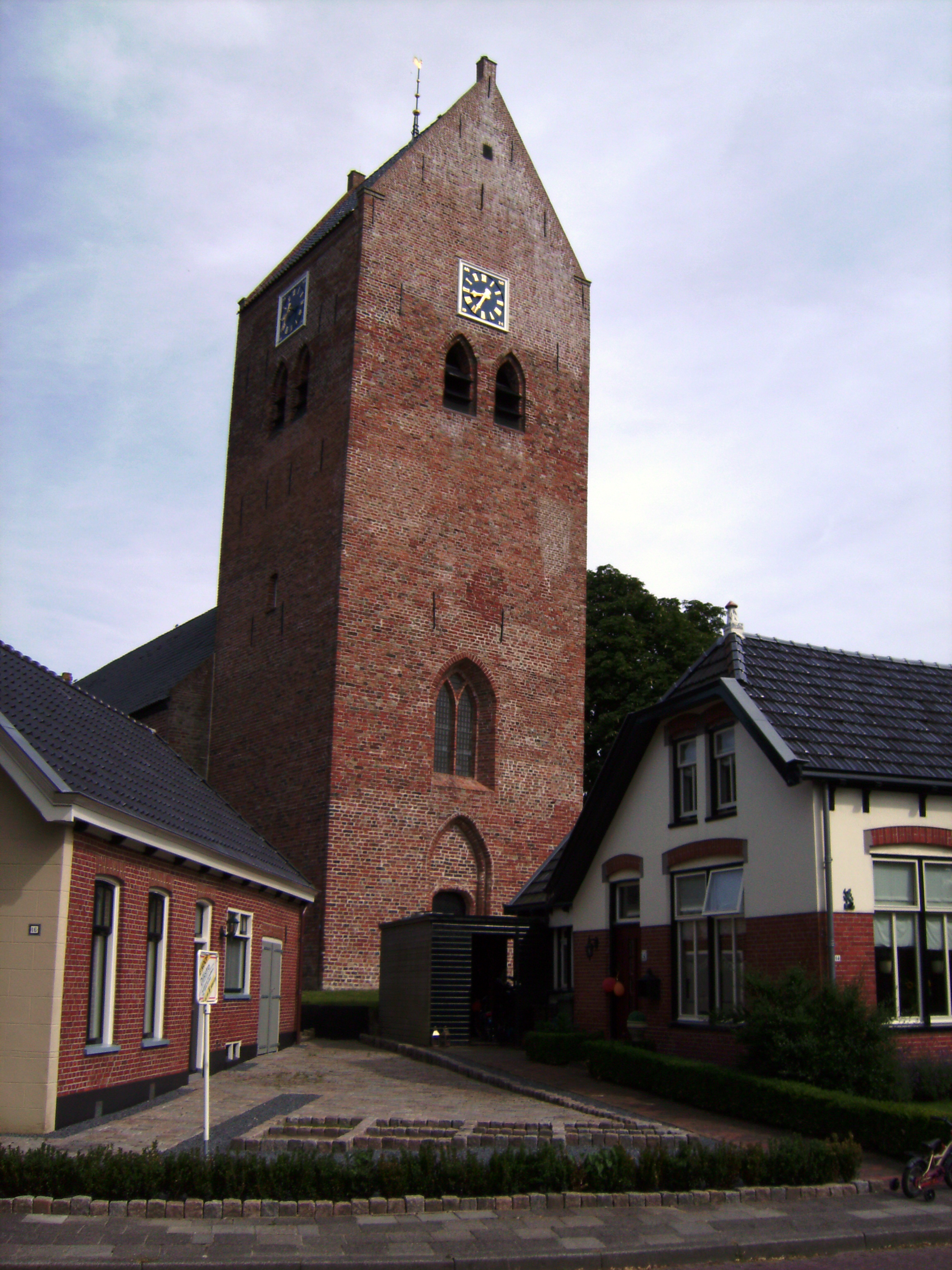 Oldehove, church